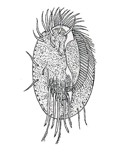 Alfred Kahl's drawings of the ciliate Euplotes harpa, from vol. III of Wimpertiere oder Ciliata